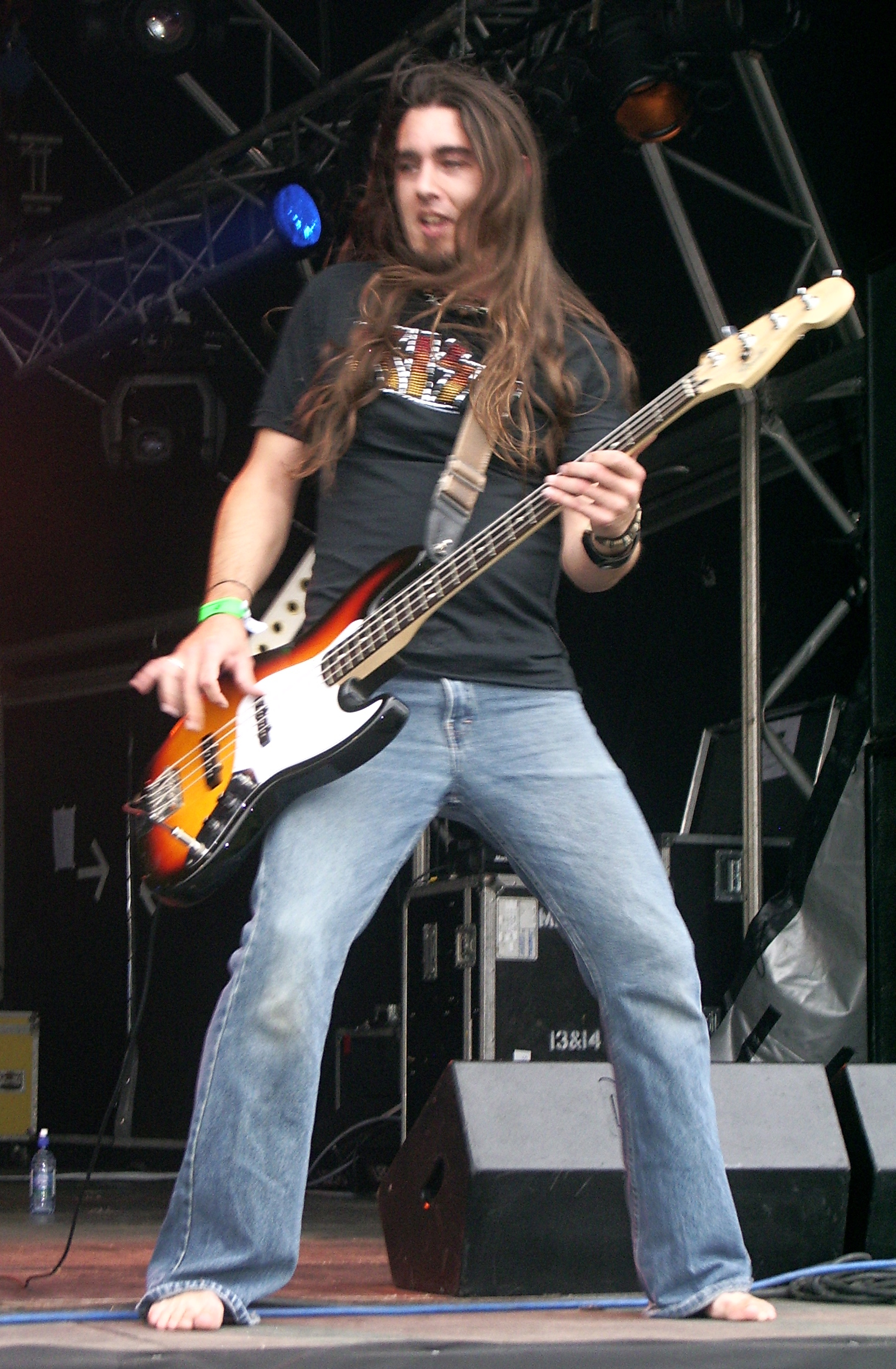 Joel Graham performing, barefoot, with Rise To Addiction at Bloodstock Open Air, 18th August 2007